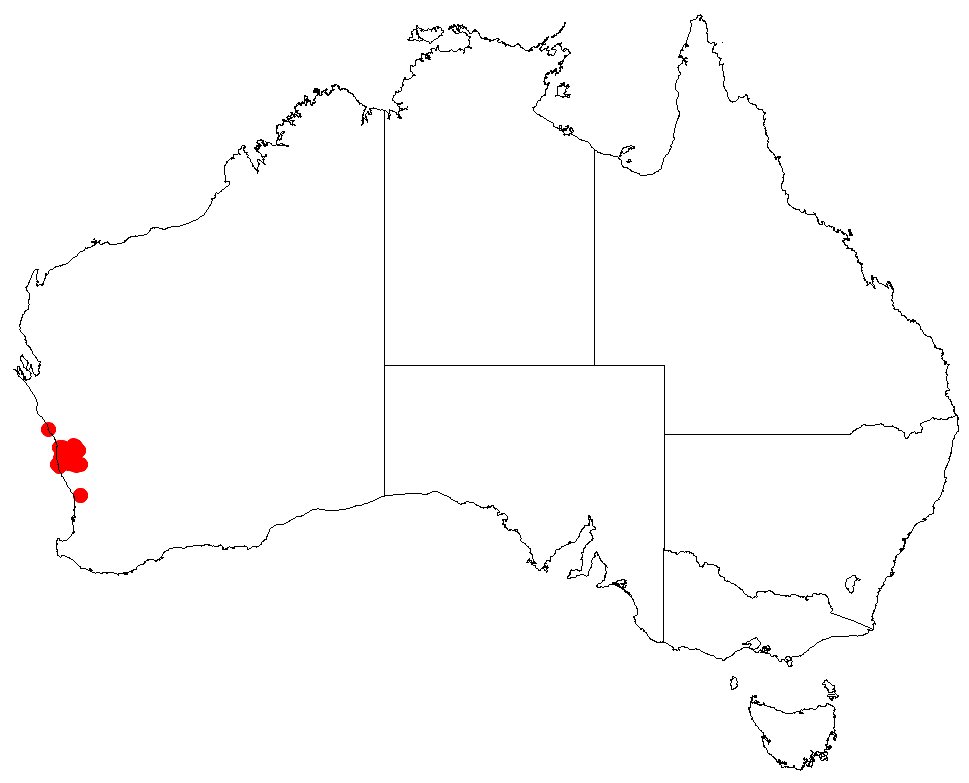 Hakea eneabba Occurrence data downloaded from Australasian Virtual Herbarium on 22 November 2018 using